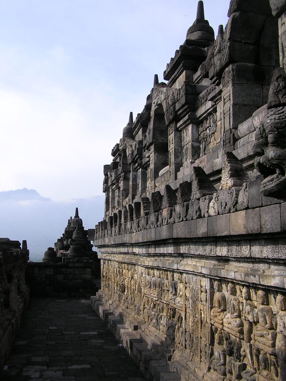 The murals (reliefs) on the wall of Borobudur, central Java, Indonesia.